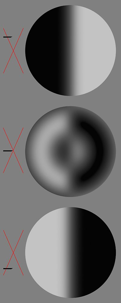 this is a 90 degree rightward rotation of File:Foucault-Test 2.jpg